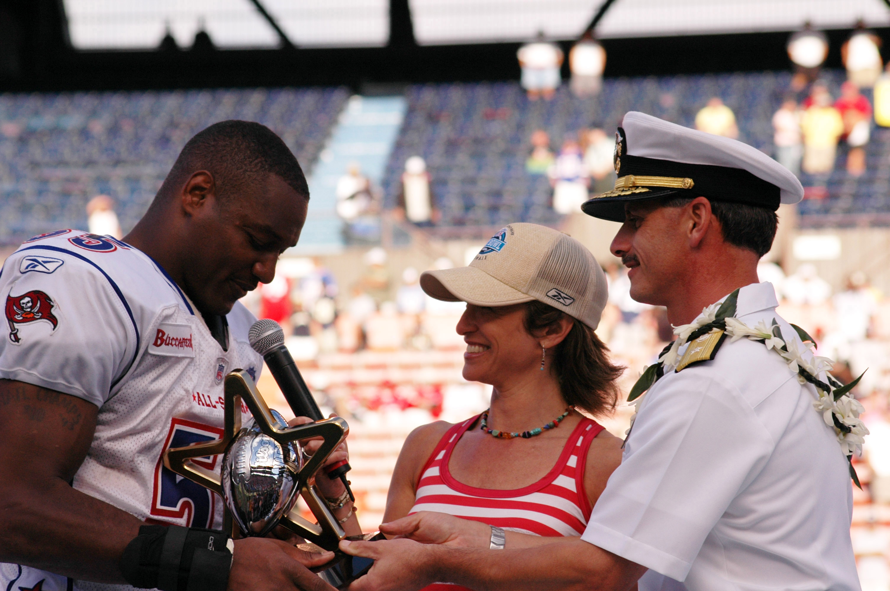 Commander Naval Region Hawaii, Rear Adm. Michael Vitale, presents the Most Valuable Player (MVP) trophy to Tampa Bay Bucanneers linebacker, Derrick Brooks. The Pro Bowl featured All-Star players from the National Football Conference (NFC) and the American Football Conference (AFC) in a game, which was played for the 27th consecutive year at Aloha Stadium in Honolulu, Hawaii.